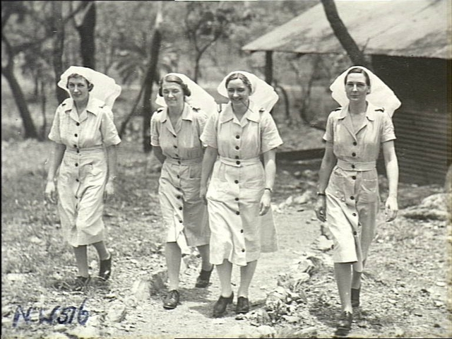 RAAF Nursing Service Sisters walk along the path from their lodge to the wards of a hospital at Darwin